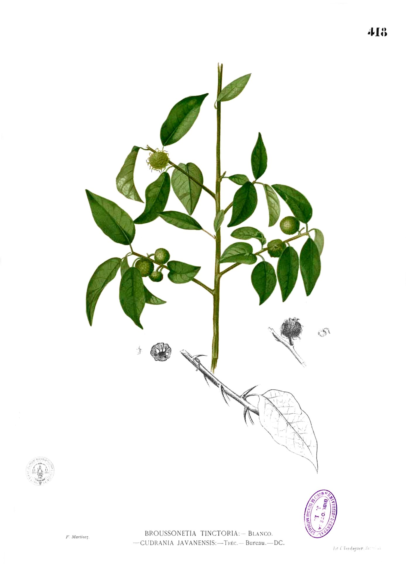 Plate from book